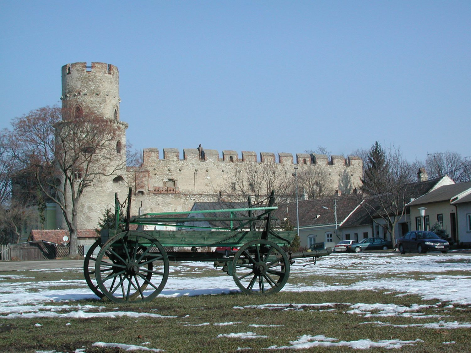 Mediaeval castle of Laa an der Thaya in Lower Austria